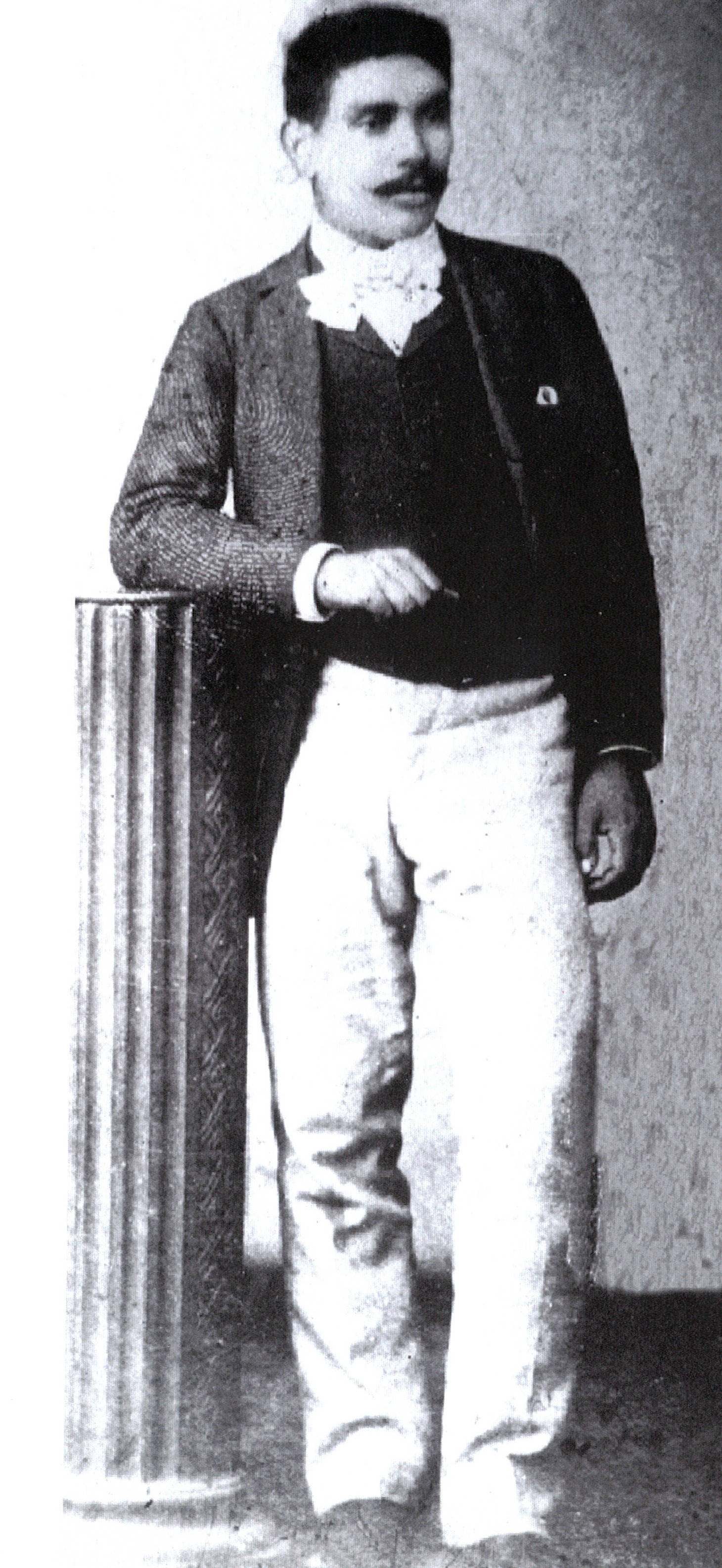 Anselmo Rosendo Mendizábal, composer of the first printed tango in 1898